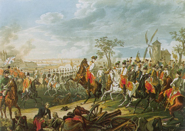 The Battle of Tournai 1794